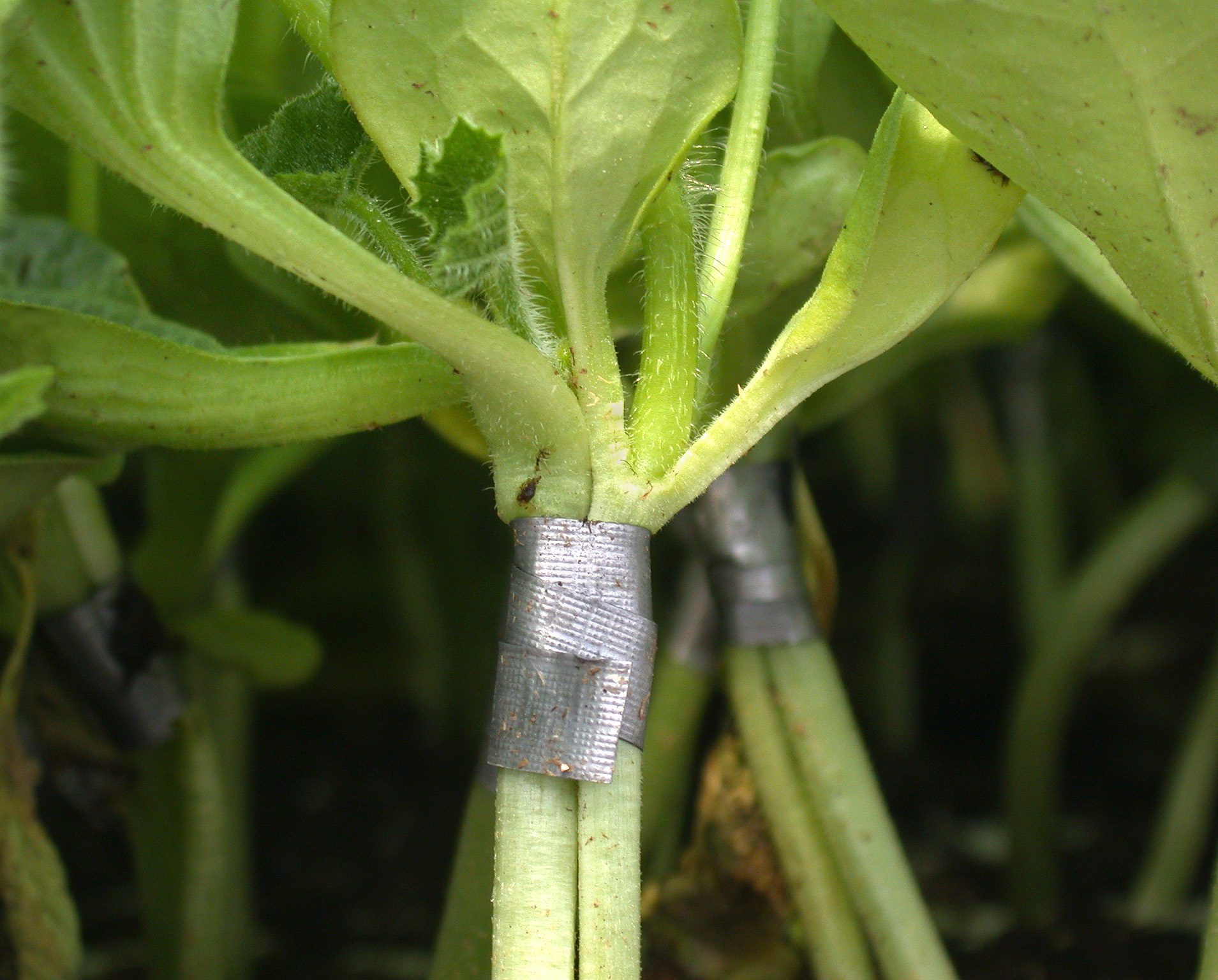 Cantaloupe (Cucumis melo) grafted onto a Cucurbita ficifolia root for pest resistence. ARS Image Gallery.